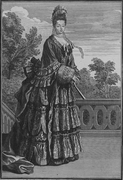 Louise Élisabeth de Bourbon in 1713; her muff made from peacock feathers, a very rare occurrence